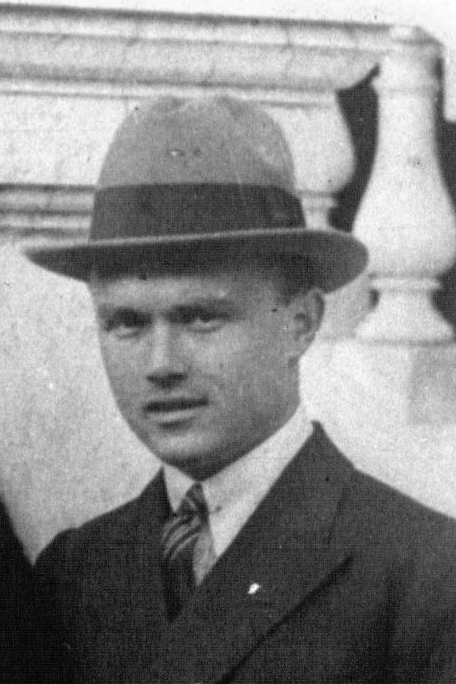 Sophoklis Venizelos (1894-1964), future Prime Minister of Greece. Picture taken in 1921 in Nice, one month after his marriage. Low quality crop of a larger image, for gallery purposes.